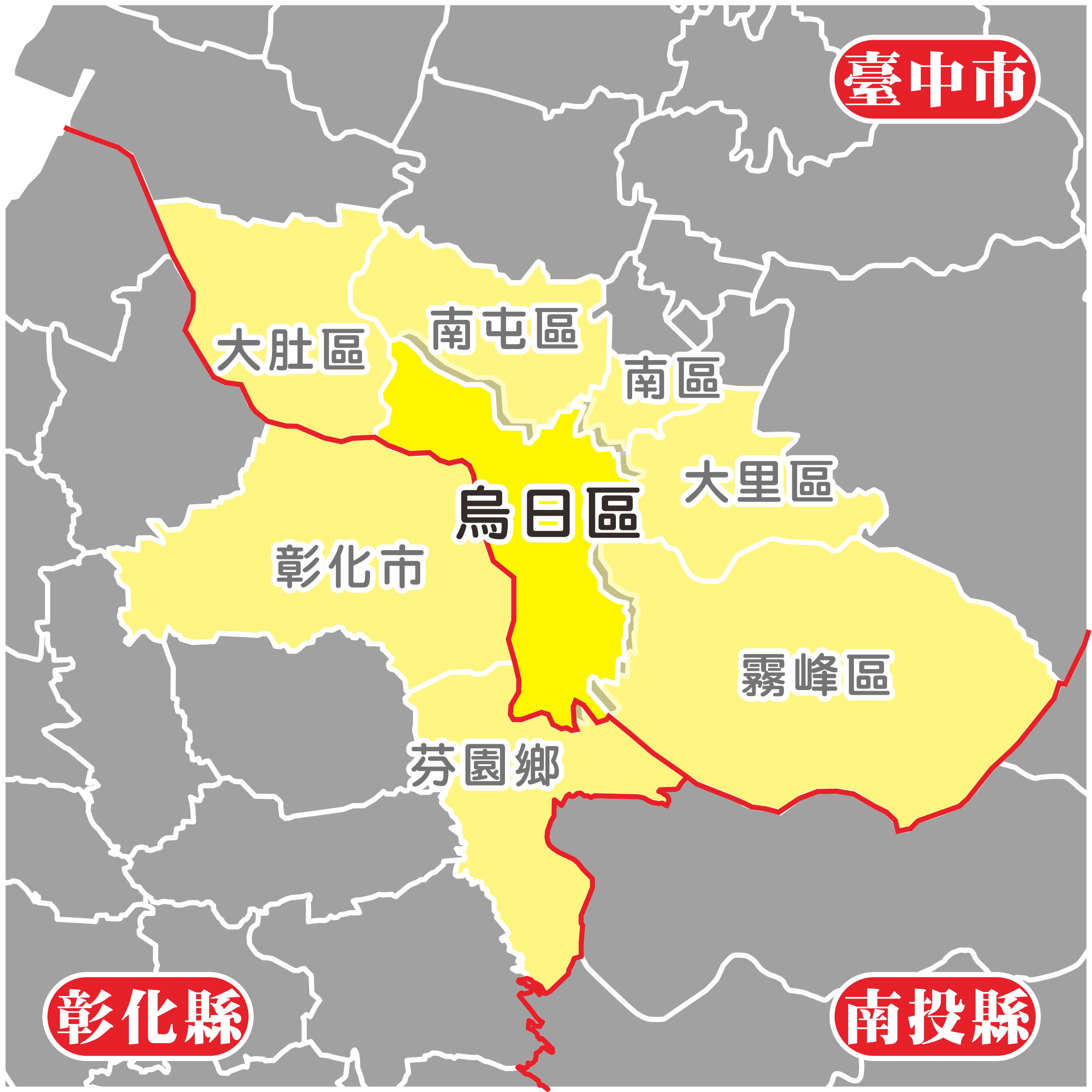 Wuri District中文（台灣）: 臺中市烏日區。